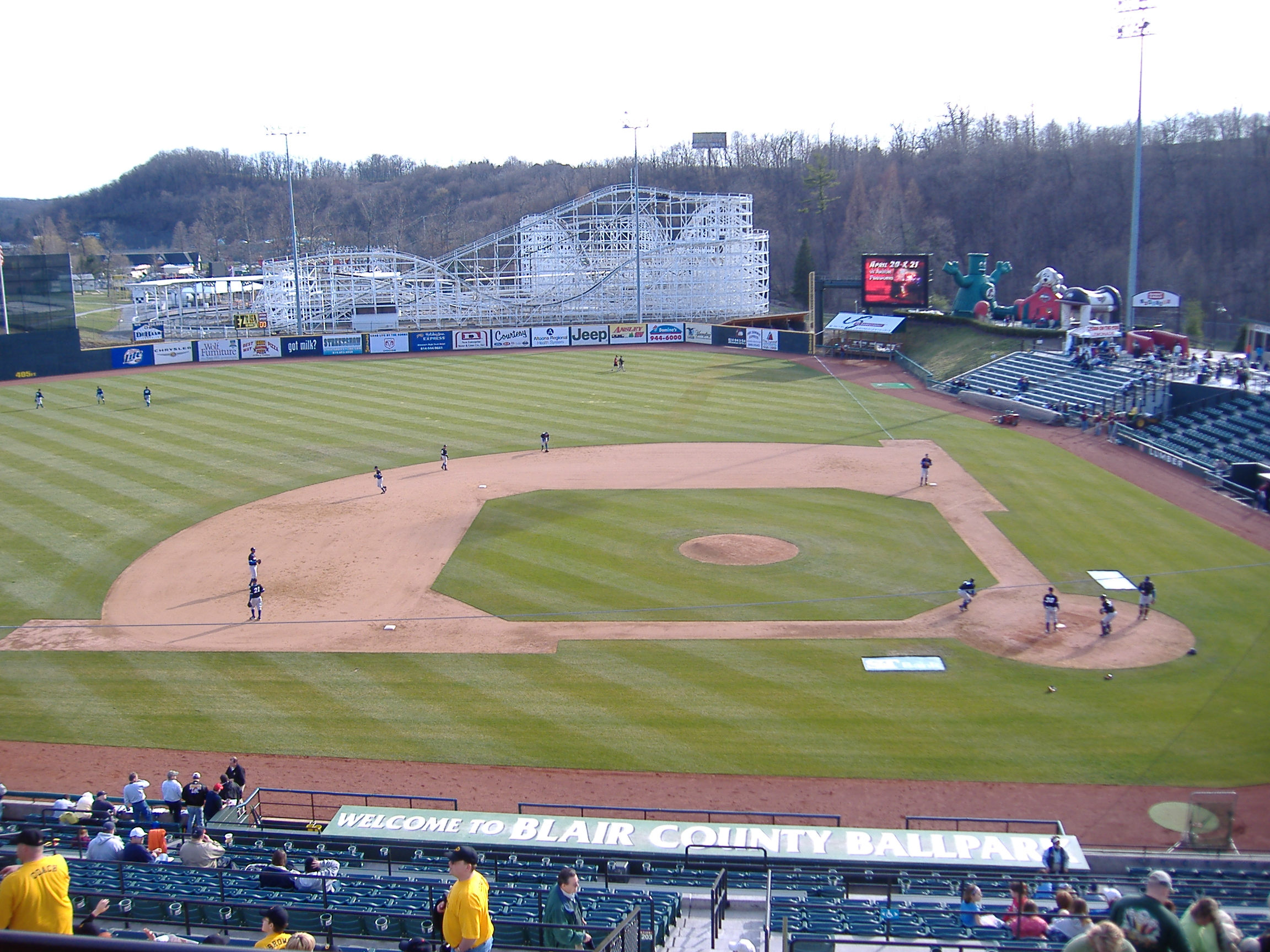 The field at Blair County Ballpark.